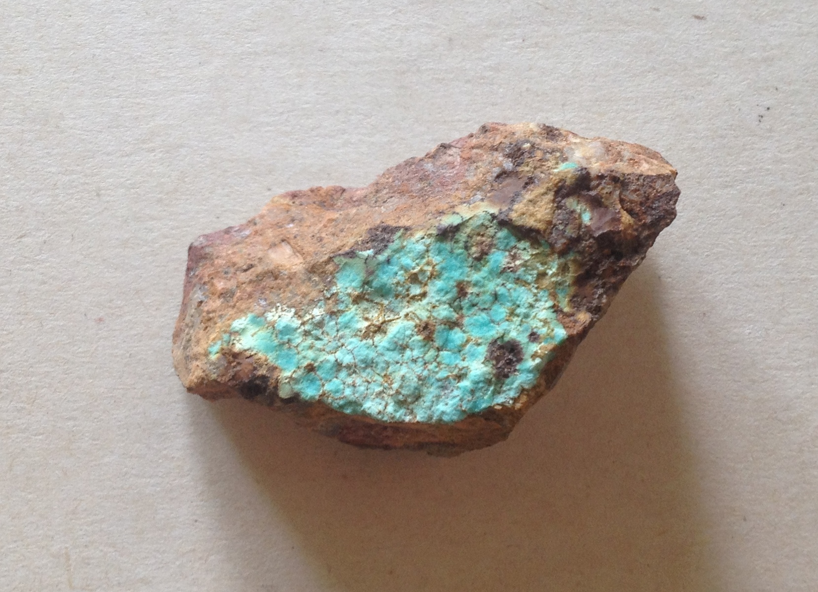 Turquoise of Ungurli-kan